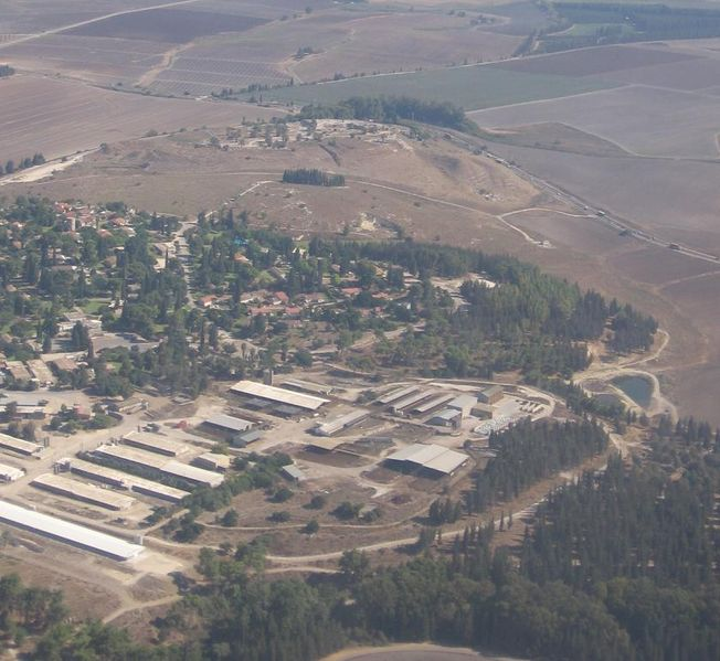 Kibbutz Meggido. Tel Meggido can be seen in the background